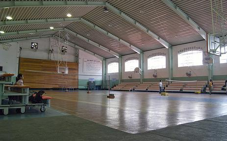 The Rajah Sulayman Gym, Pamantasan ng Lungsod ng Maynila, Philippines.